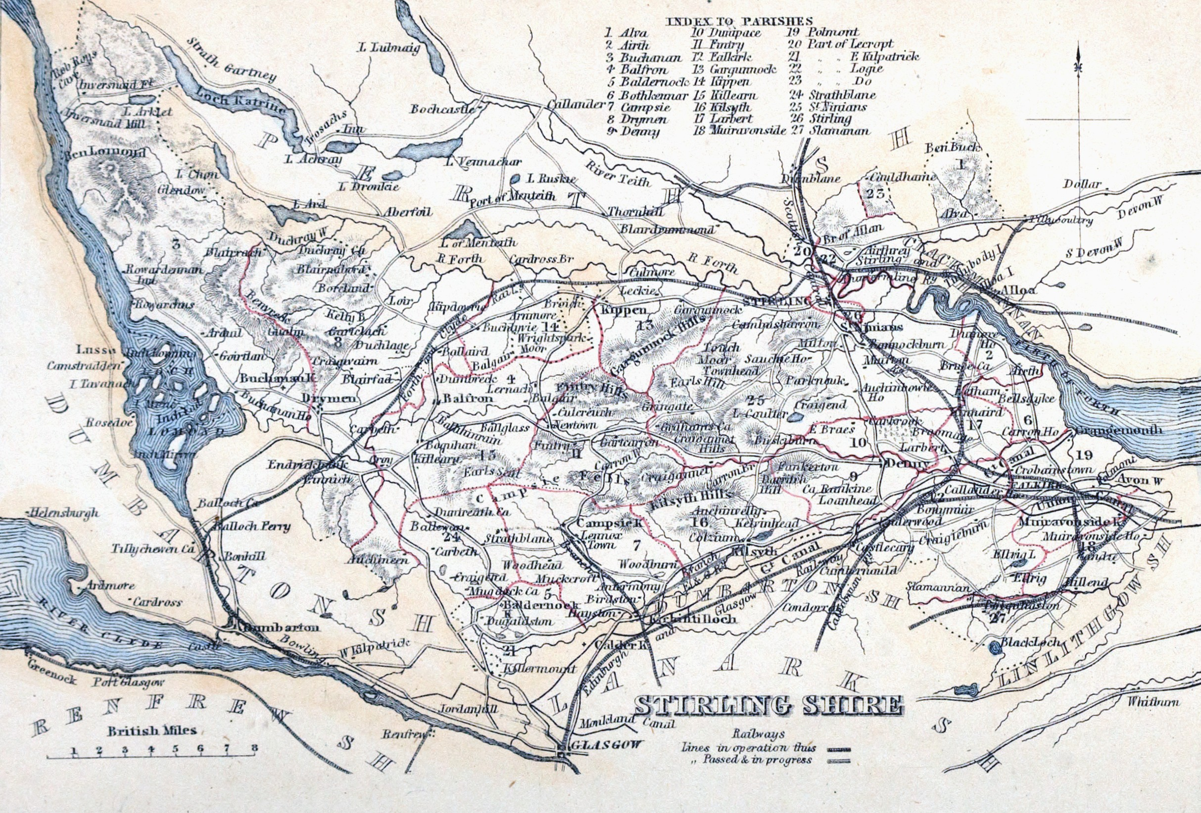 STIRLINGSHIRE Civil Parish map. The Imperial gazetteer of Scotland. Vol.II. by Rev. John Marius Wilson. The gazateer was published in the 1850s